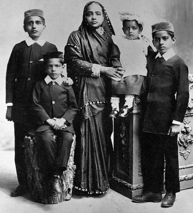 Kasturba Gandhi and her four sons, Harilal (left), Manilal (right), Ramdas (second left), and Devdas (second right), in South-Africa, 1902.